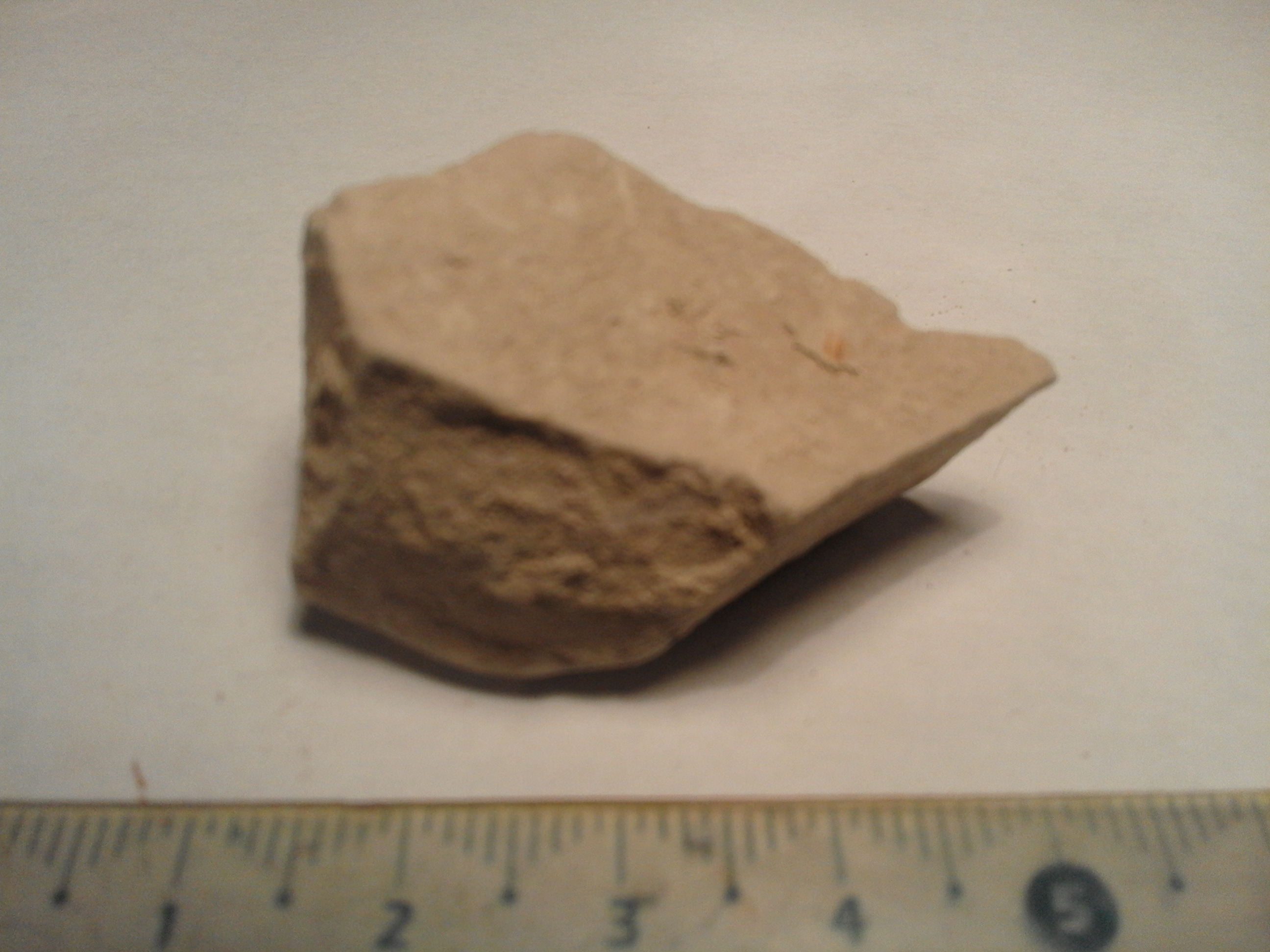 Marl sample (Normandy, France)